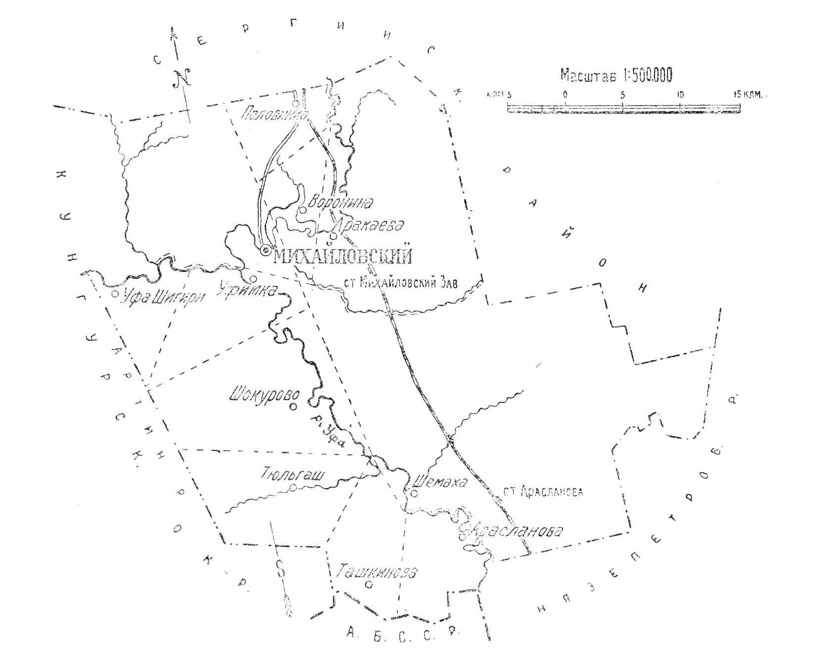 Map of Mikhailovskiy rayon (Sverdlovskiy okrug of Uralic Region of RSFSR) in 1928.